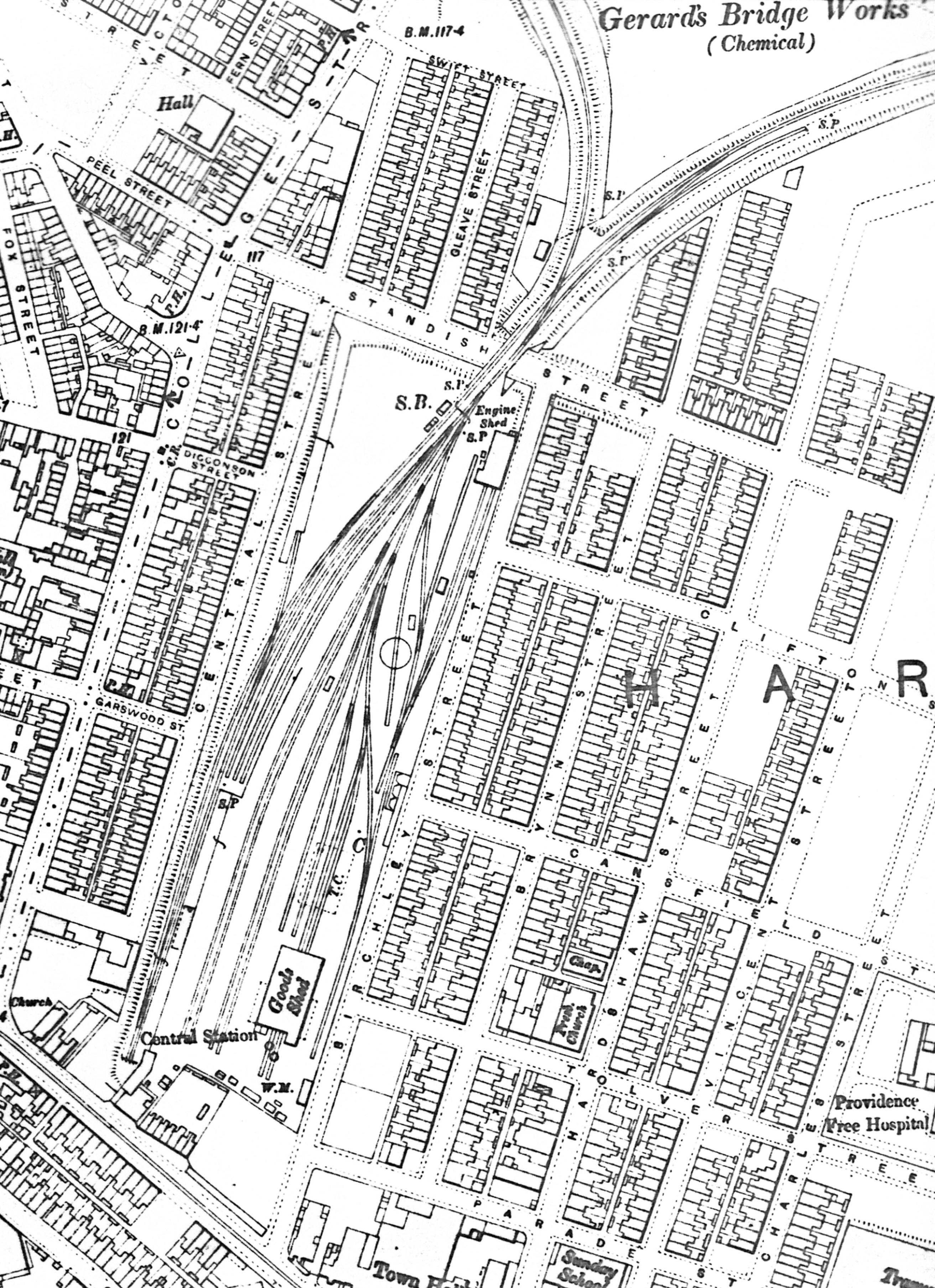 This is a cropped version of a 1908 OS Map of the St Helens town area showing the extent of the St. Helens Central GCR station and goods yard Other information See UK OS Maps Copyright page